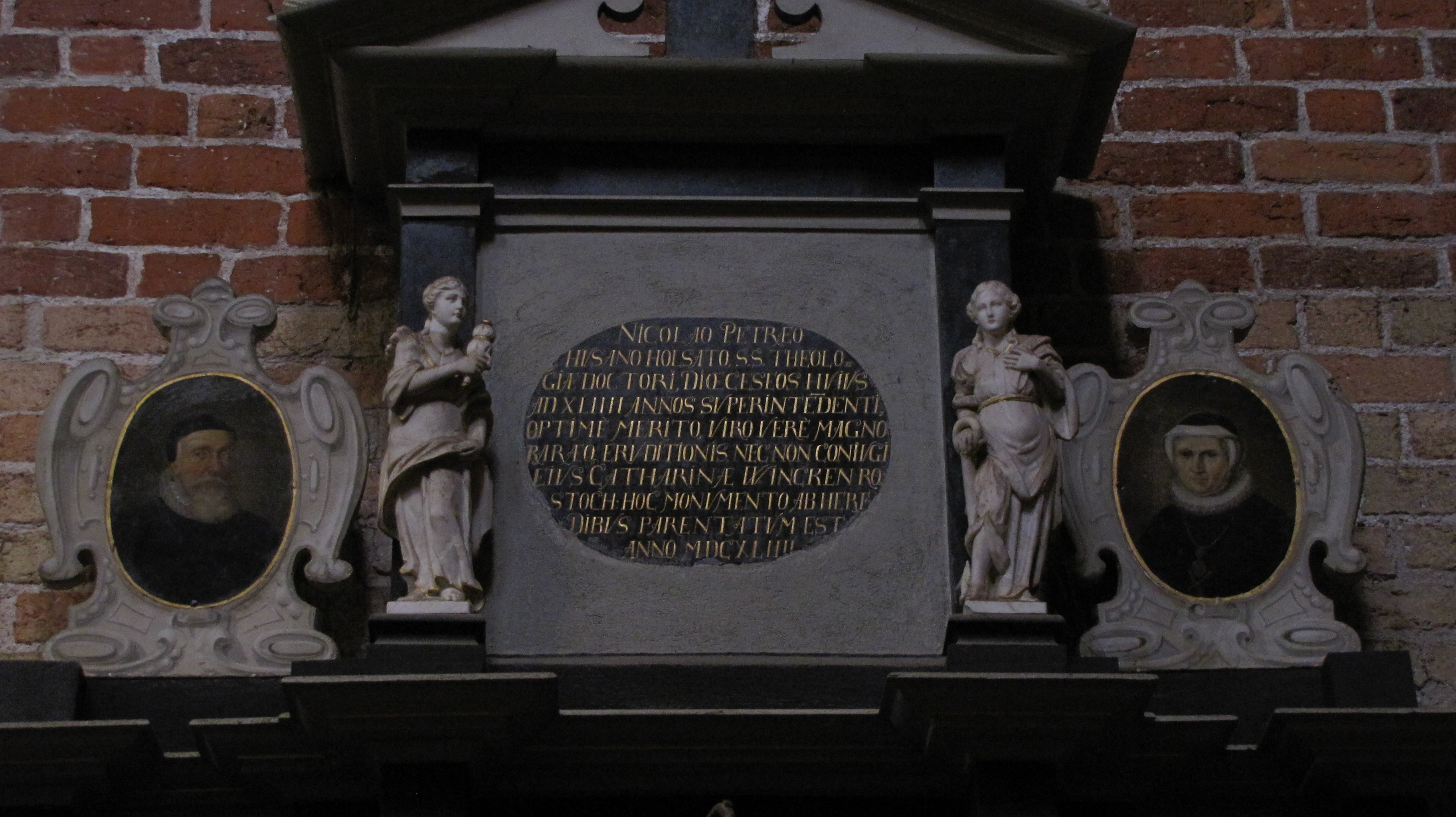 Detail of the epitaph for Niclaous Petraeus in Ratzeburg cathedral